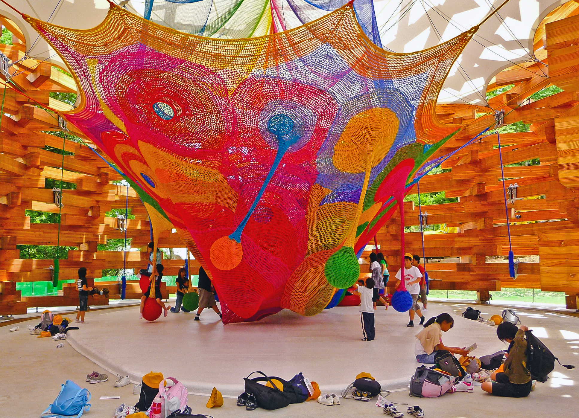 Doesn't this playground look like so much fun?